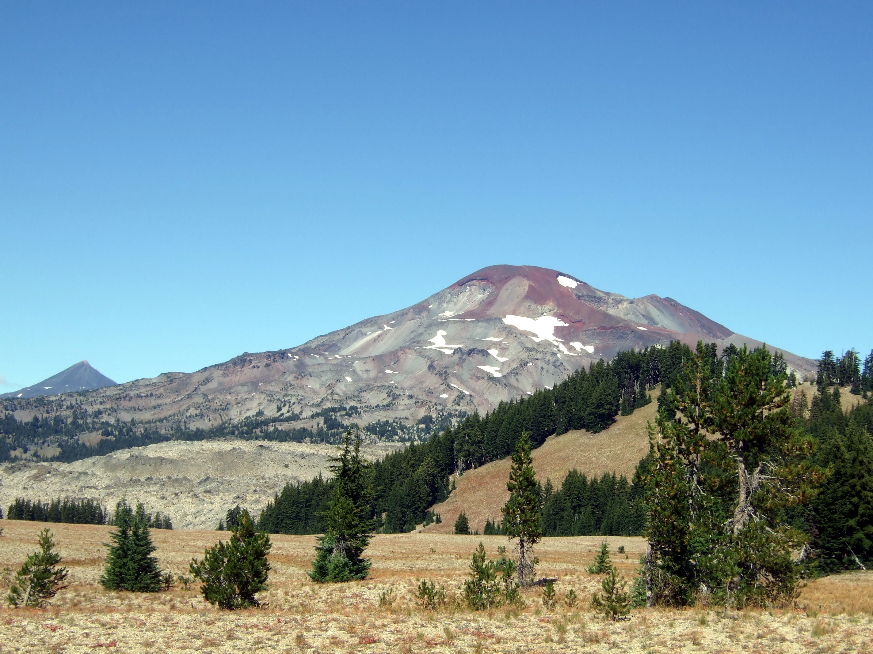 South Sister from the Wickiup Plain, Three Sisters Wilderness, Oregon